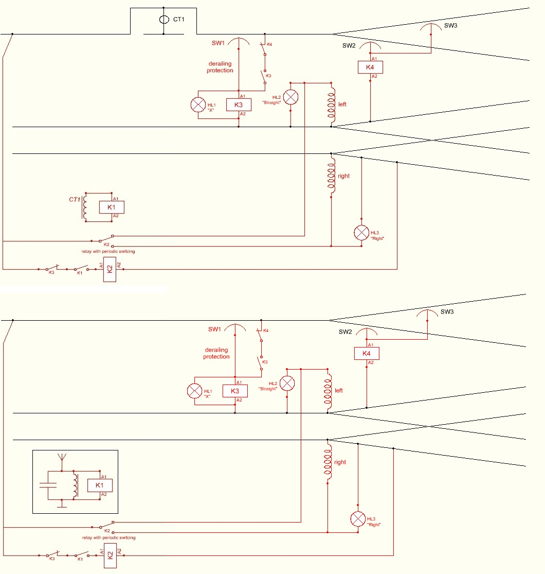 Wiring diagrams of modern tram arrows. Above: there is traffic lights on arrow level (HL1...HL3), which shows current position. If driver wants to go to opposite side, he should pass contact CT1 with enabled motor. Enabled motor will switch relay K2 through K1 and place arrow into required position. After passing contact CT1, pantograph will pass aircontact SW1 and block arrow to next trams to avoid derailing. After passing whole arrow, pantograph will hook aircontact SW2 or SW3, which disables derailing protection through relay K4 and next trams may pass the arrow. Below: the same, but radio-contolled; transmitter and receiver.